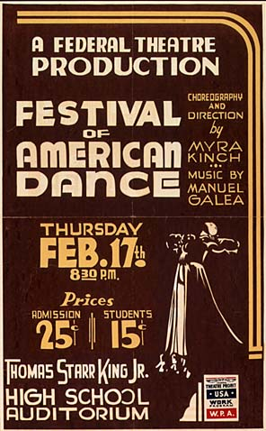 Poster for Festival of American Dance By an unknown artist, Los Angeles Federal Theatre Project, WPA, 1937 Silkscreen